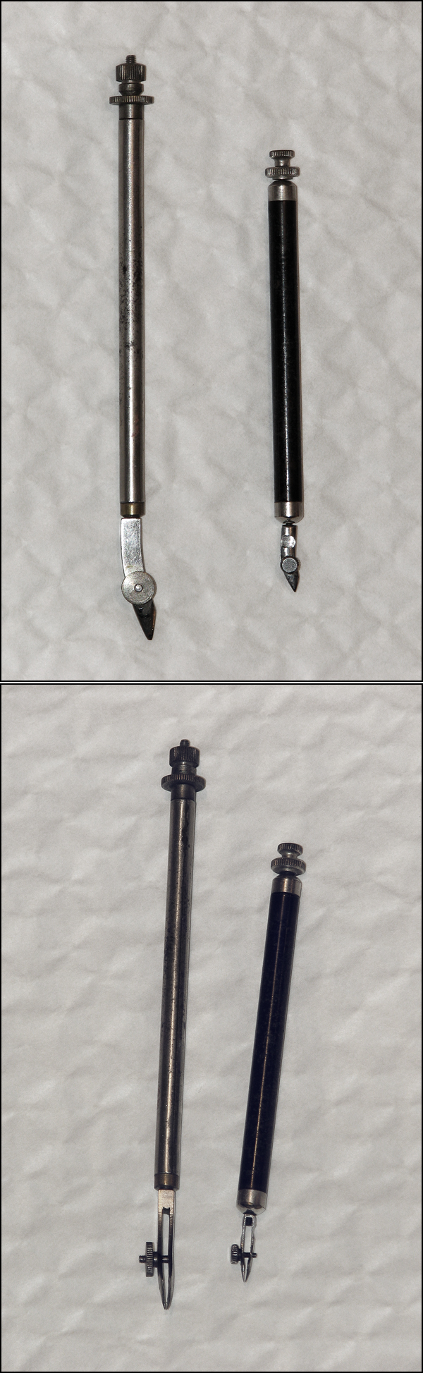 Contour instrument (contour pen, swivel pen) — map drawing instrument.